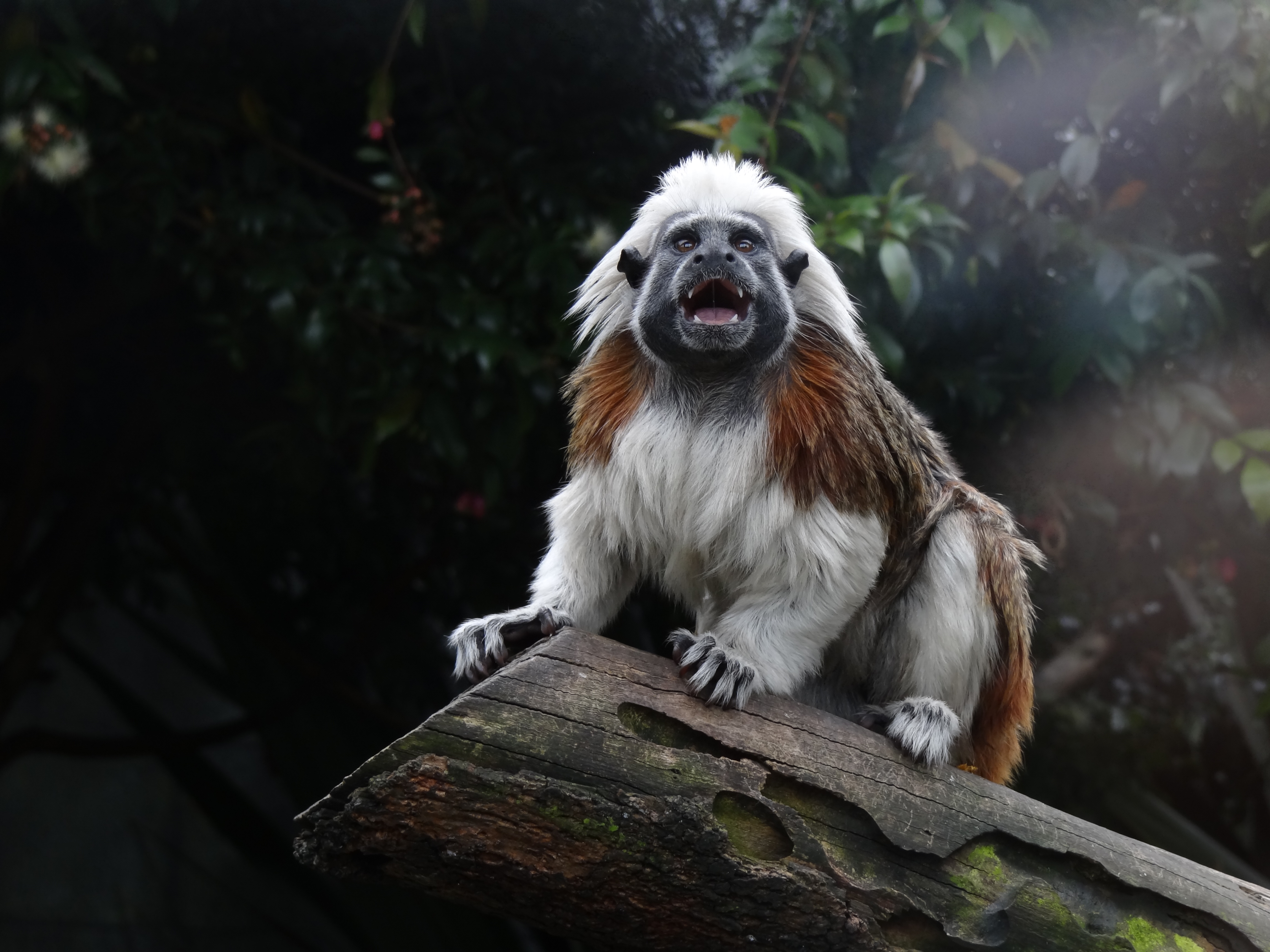 Saguinus oedipus